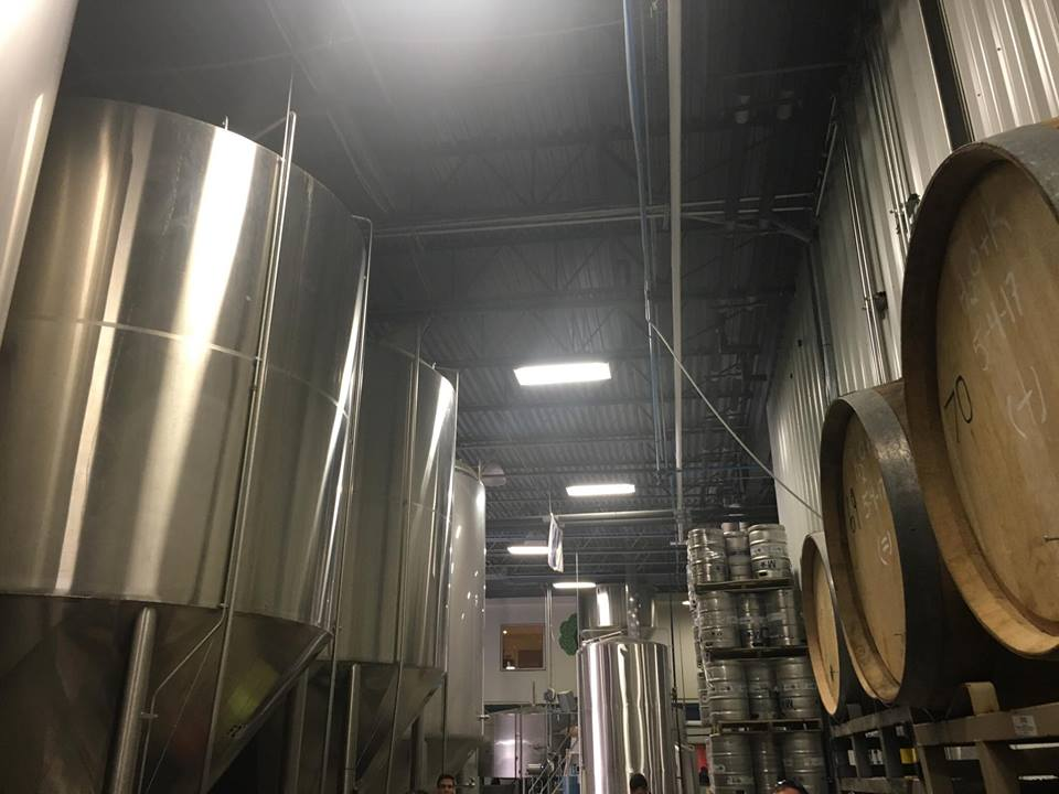 Equipment and barrels at Two Brothers